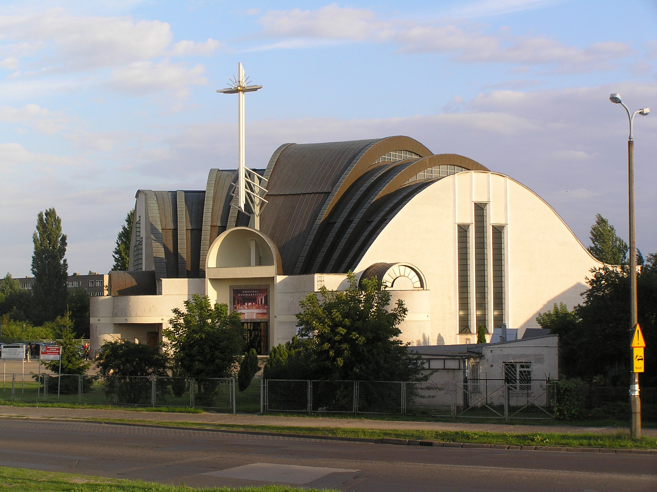 Toruń, church of Our Lady Queen of Poland